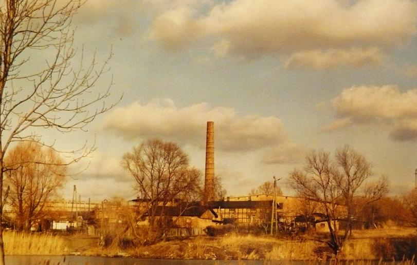 Poznan - Rudnicze-part (brickyards landscape in 1993 yer).